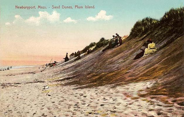 Sand dunes, Plum Island, Newburyport, MA; from a 1908 postcard.